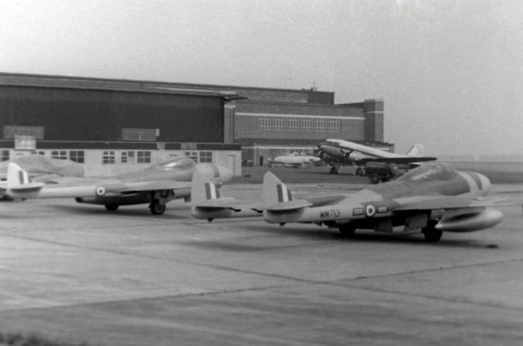 DH.113 Vampire NF.10 of 25 Squadron RAF at Liverpool (Speke) Aiport in April 1954